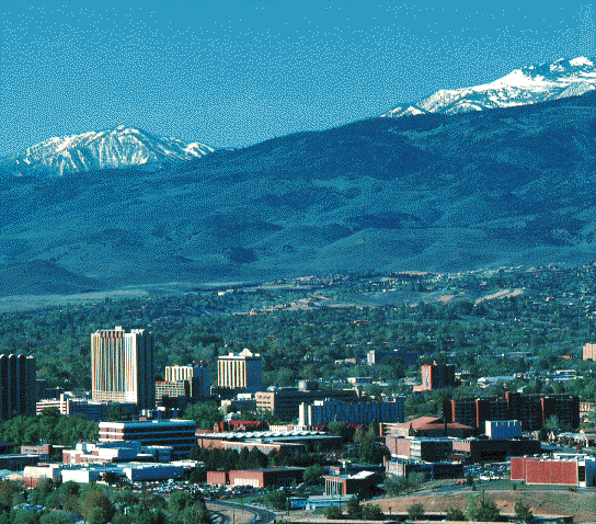 View of Reno, Nevada, with the University of Nevada, Reno campus in the foreground. (ca. 1982–1993)